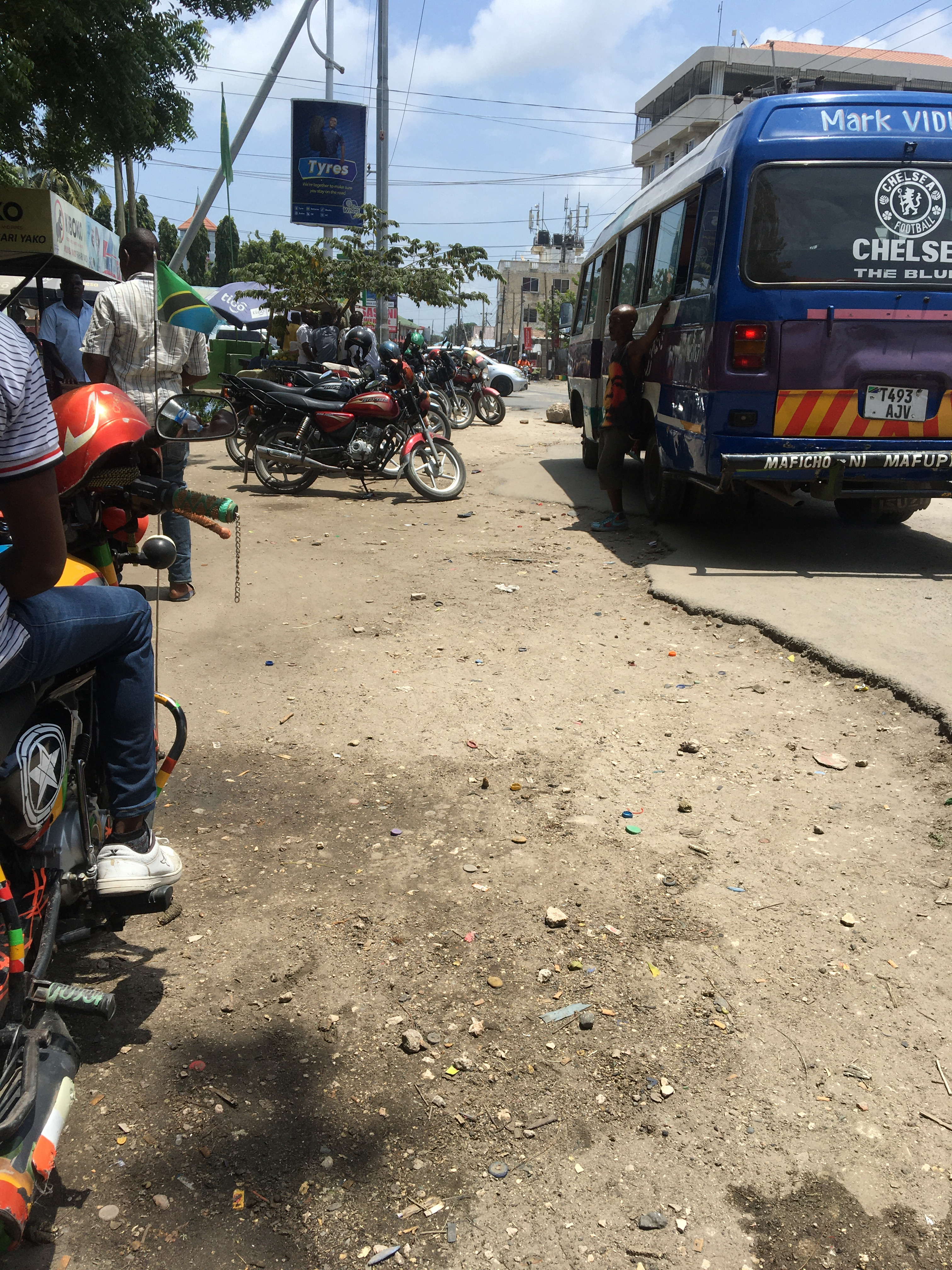 Daladala is the name for public transport Buses in Dar and bodaboda is the name for motocycles This is an image with the theme "Africa on the Move or Transport" from: Tanzania